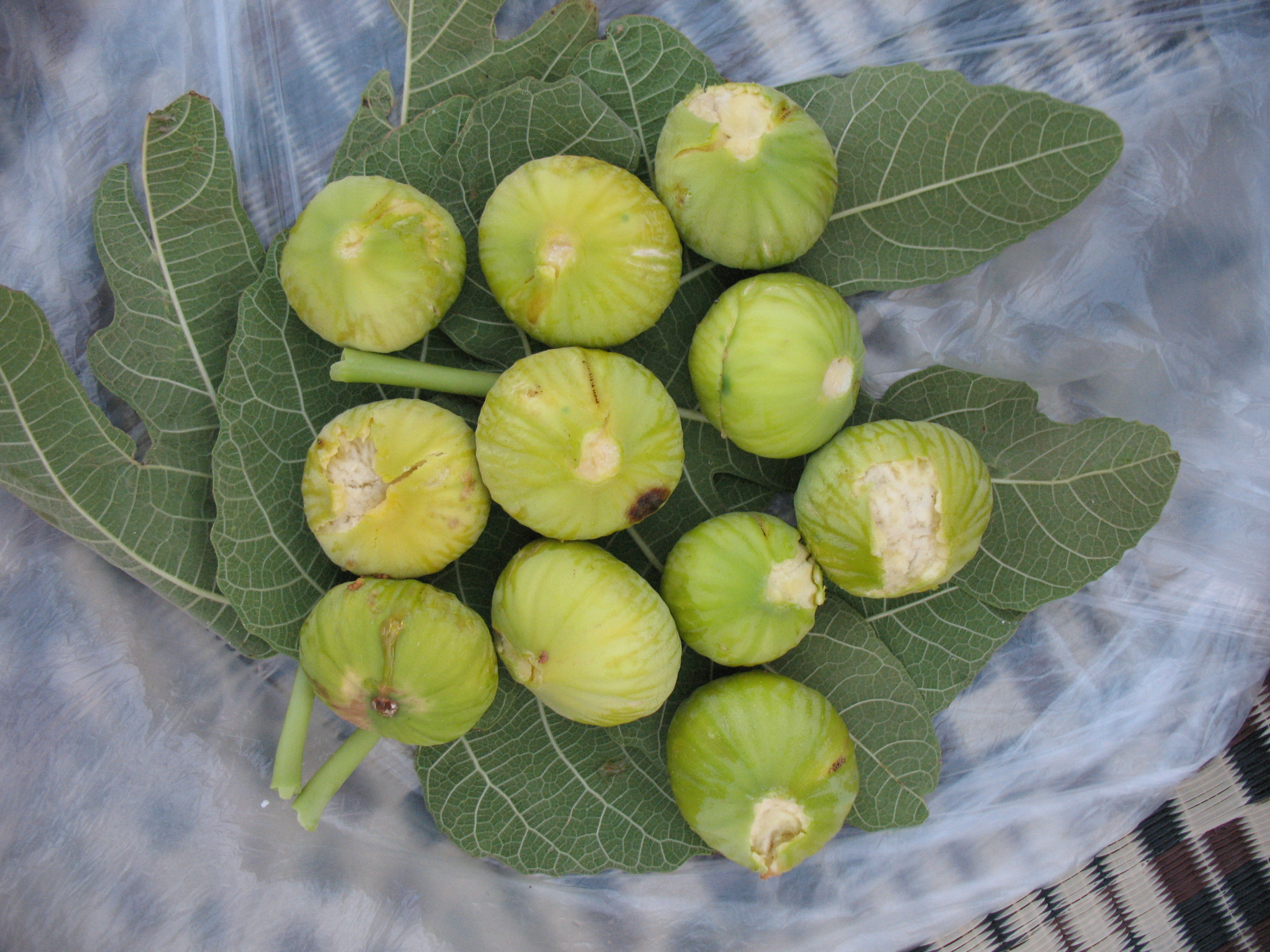 Common Fig, taken in Syria